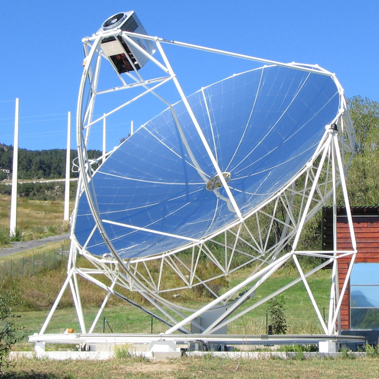 DISH-STIRLING Research Project in Font-Romeu-Odeillo, France.